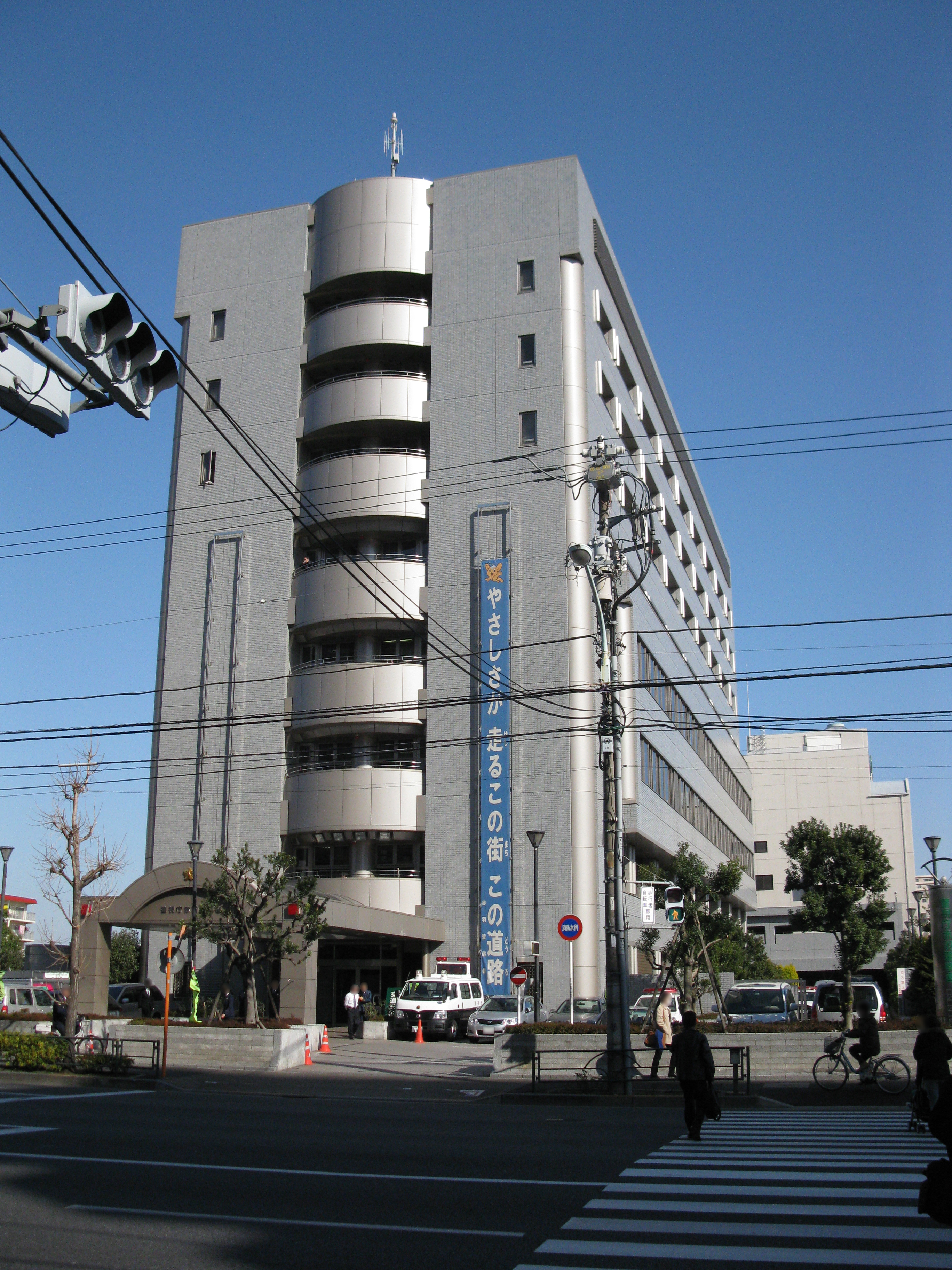 Akabane Police Station (Kita ward, Tokyo, Japan)